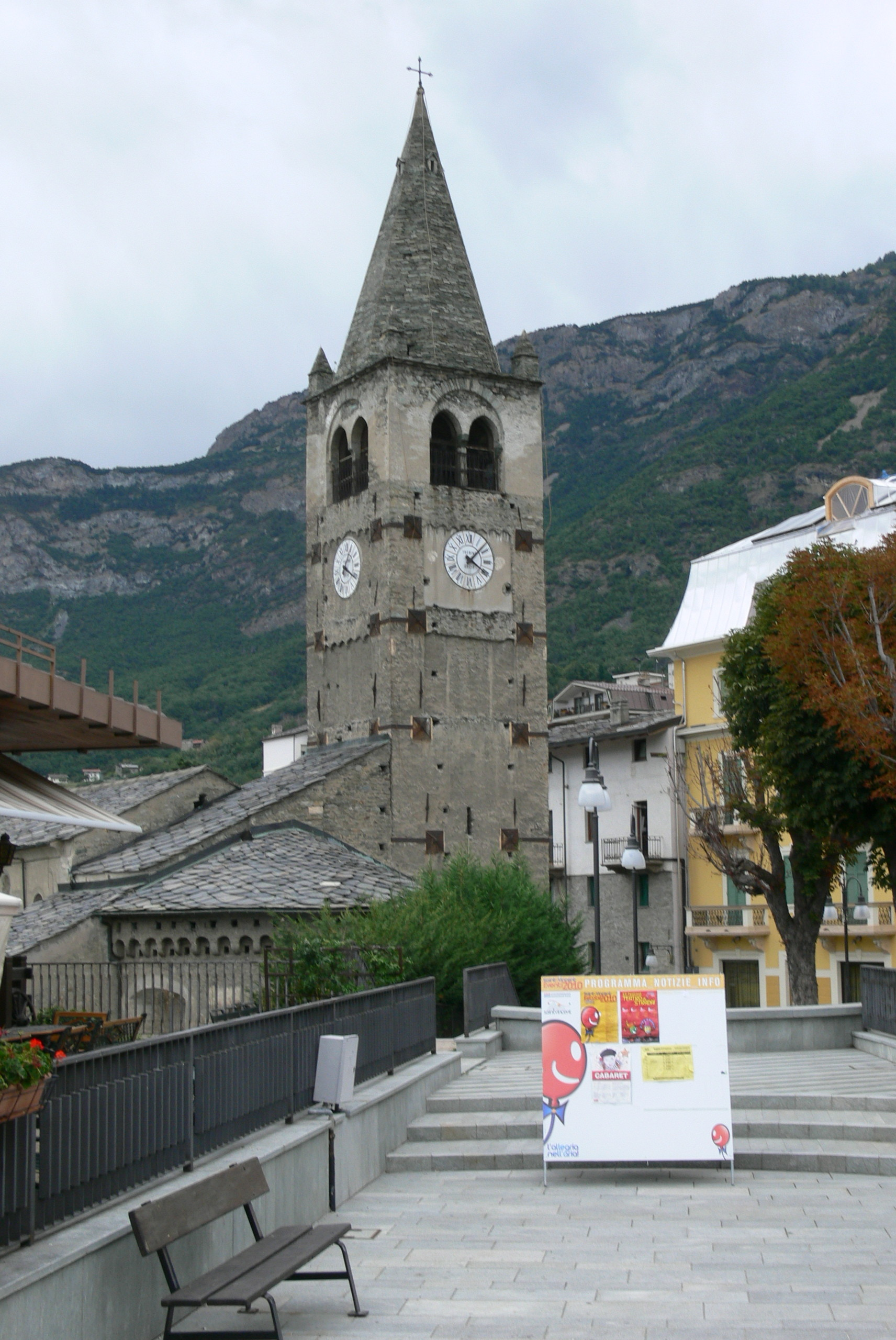 Saint-Vincent ( Aosta Valley ). Saint Vincent parish church - tower.